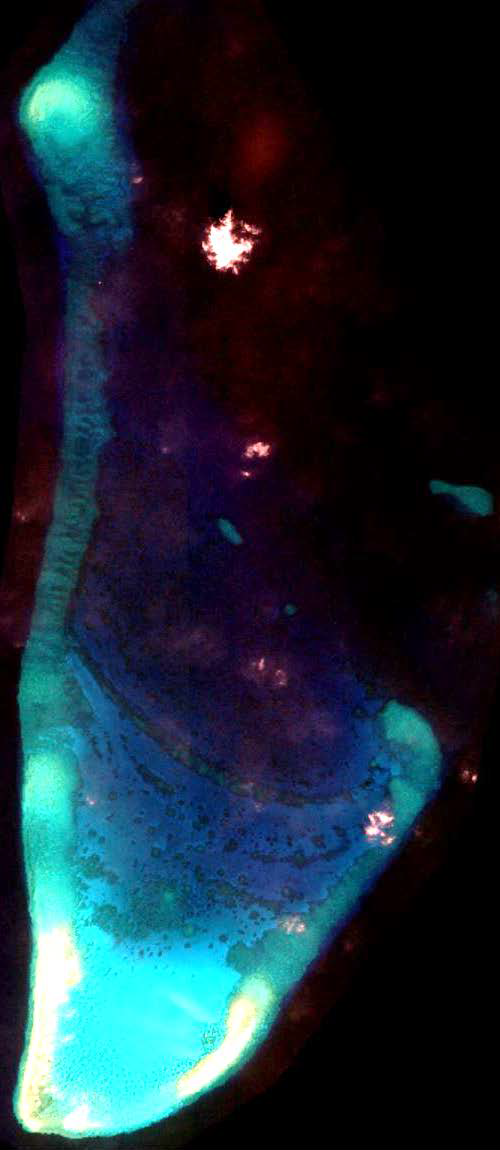 Baker Reef and Iroquois Reef